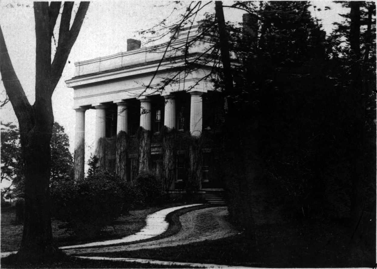 This scan is from a postcard collection started by my great-grandmother (1876-1969) of the Herman Camp House which she received in 1906 . I am guessing that this is probably a 19th century image.